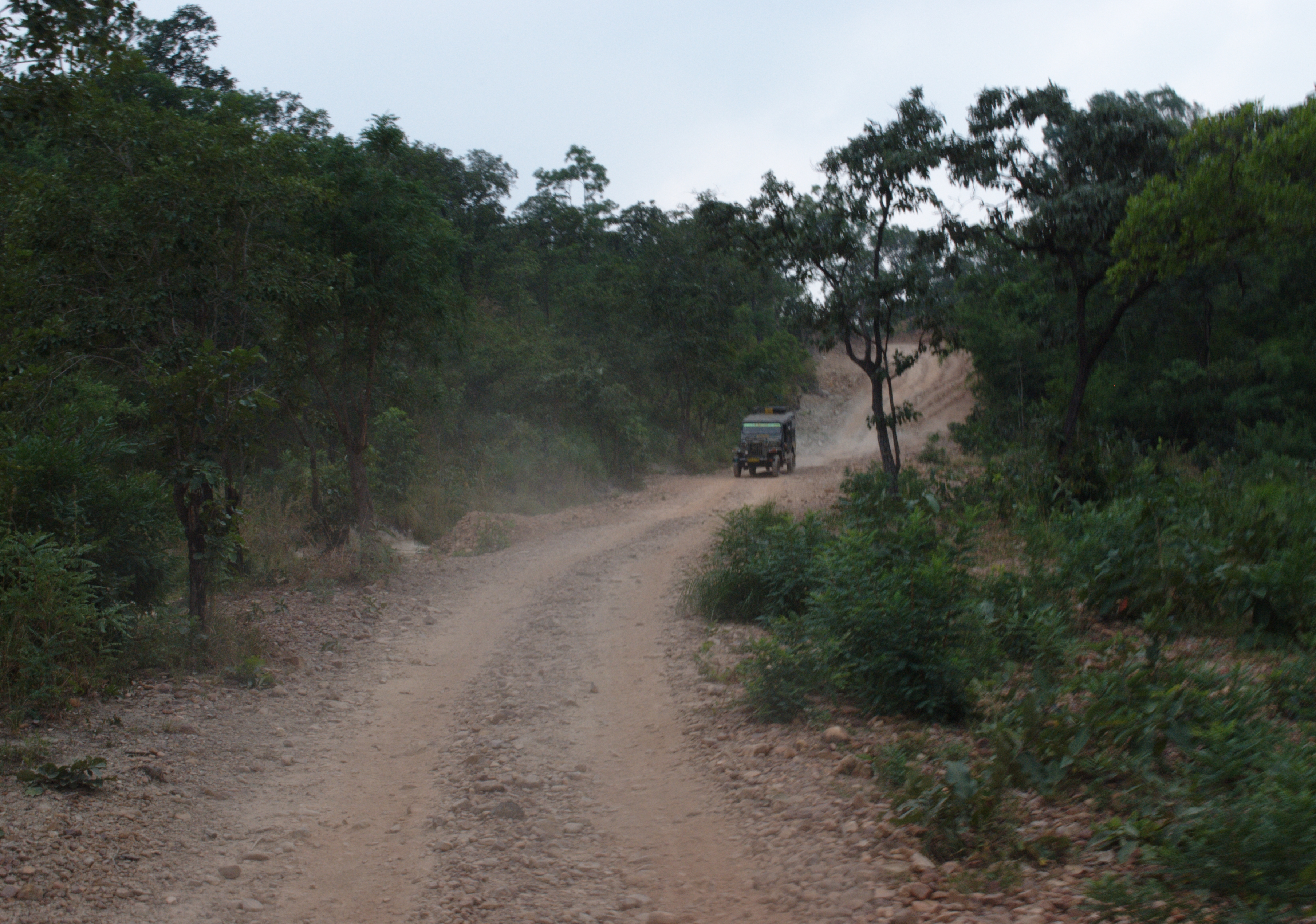 Dirt road along Nallamala Forests near Ahobilam, Kurnool district